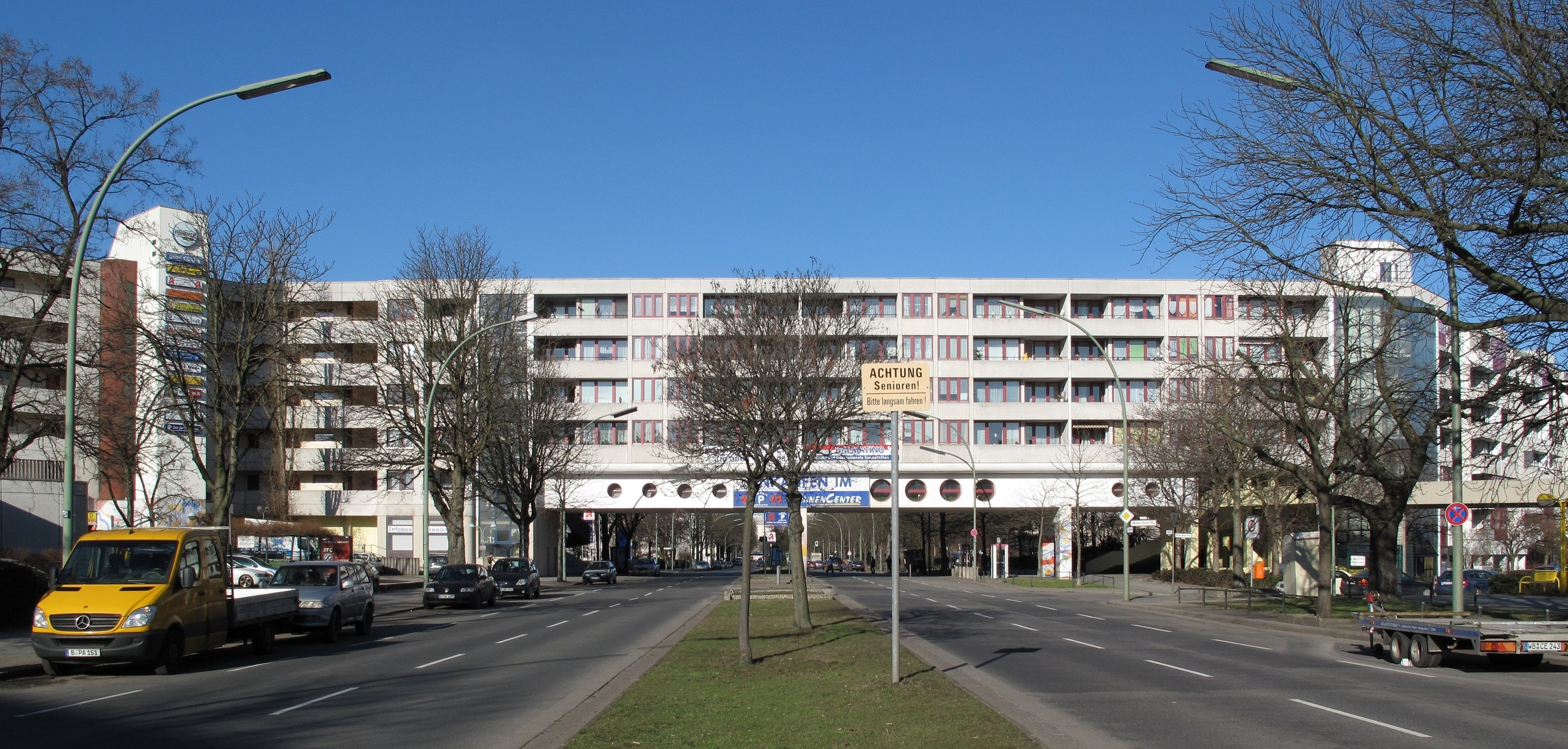 So-called „ Brückenhaus“ (german for: bridge-house) above the Sonnenallee in the High-Deck-Siedlung. The High-Deck-Siedlung is a housing estate in Berlin-Neukölln with ca. 6.000 inhabitants. The estate was built in the 1970s/1980s within the subsidized housing by the architects Rainer Oefelein and Bernhard Freund. Their innovative urban development concept counted on a structurally separation of pedestrians and traffic in opposition to Berlin's „urbanity through density“ conception (high-rise-estates) at that time. Above the streets spandrel-braced, green foot pathes (the High-Decks) connect the mainly five to six storied houses. Was the estate after it's construction regarded as the epitome of a tranquil and modern urban living at the green edge of West Berlin, it has evolved after the fall of Berlins Wall into a social hotspot. There was set up a neighbourhood management in 1999.